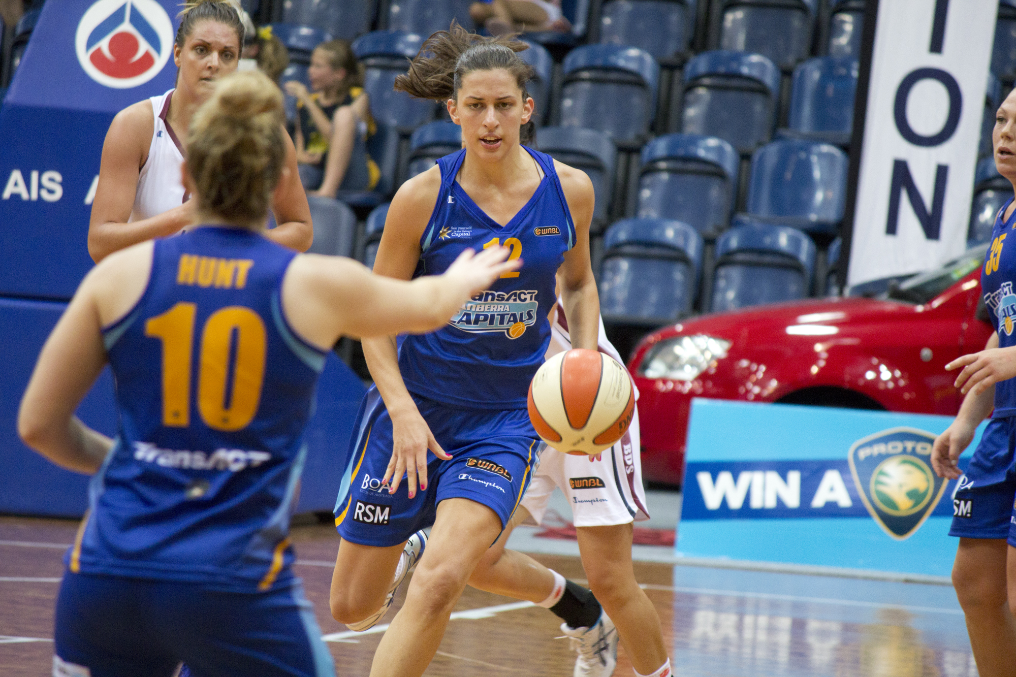 Marianna Tolo at the Canberra Capitals vs Logan Thunder held at AIS Arena at the Australian Institute of Sport